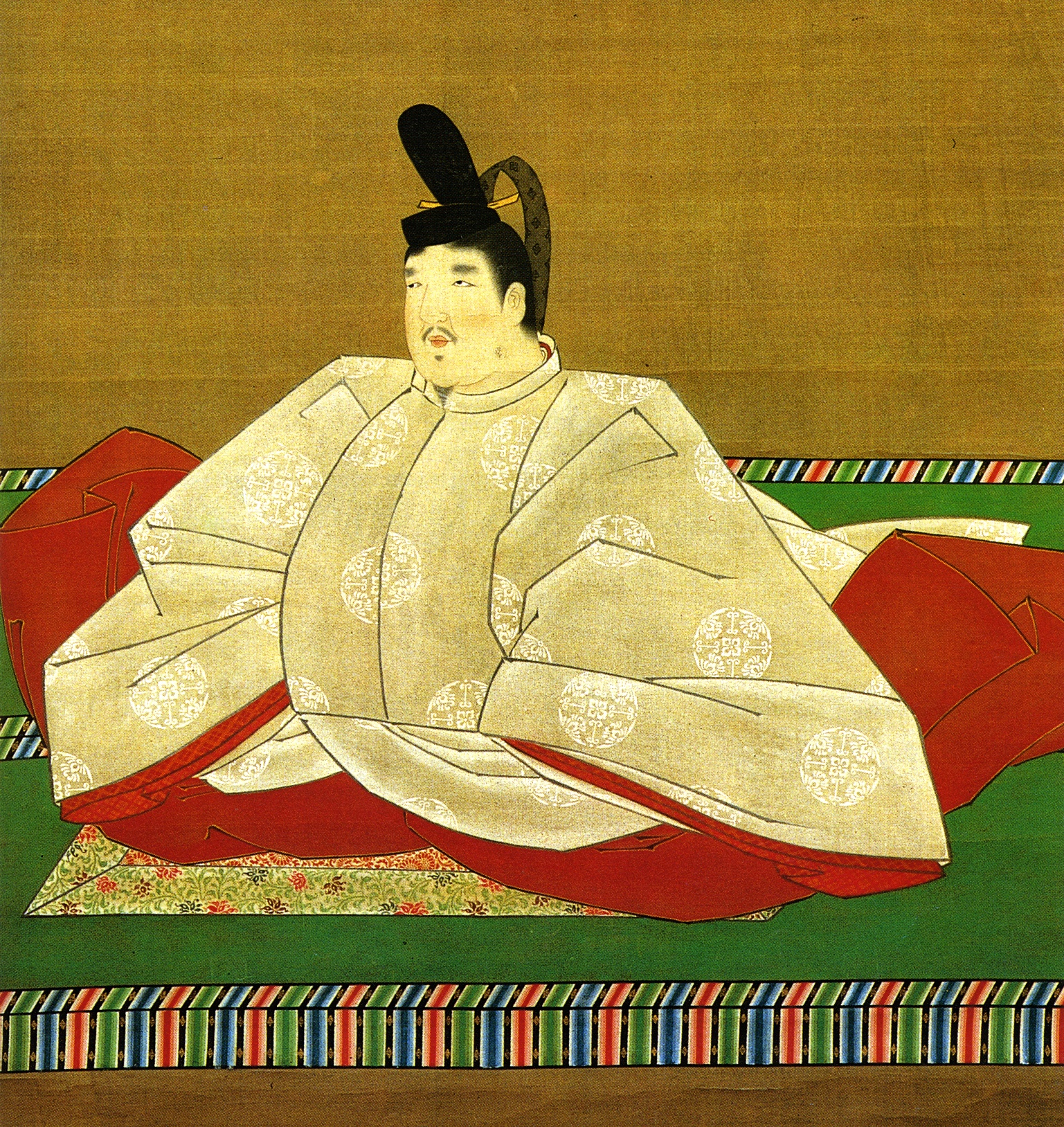 Portrait of the Emperor Go-Murakami(detail)